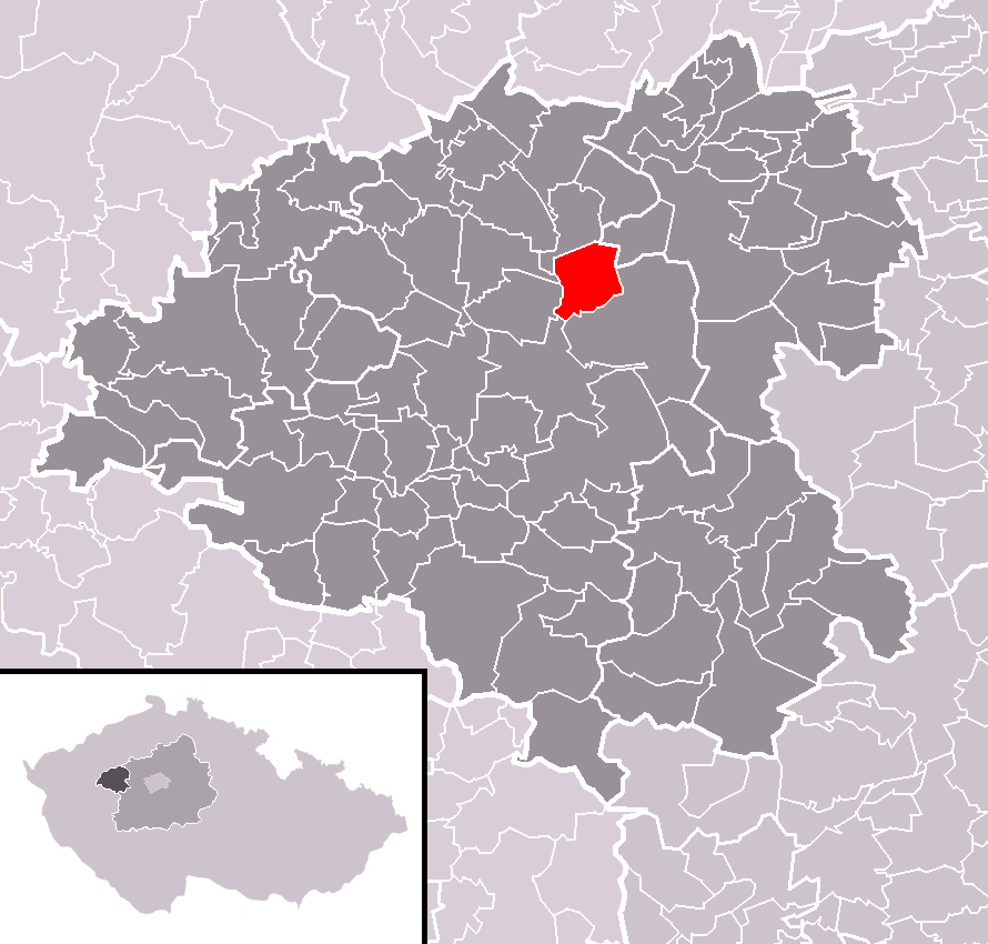 Location of Lišany municipality within Rakovník District and (identical) administrative area of Rakovník as a Municipality with Extended Competence.